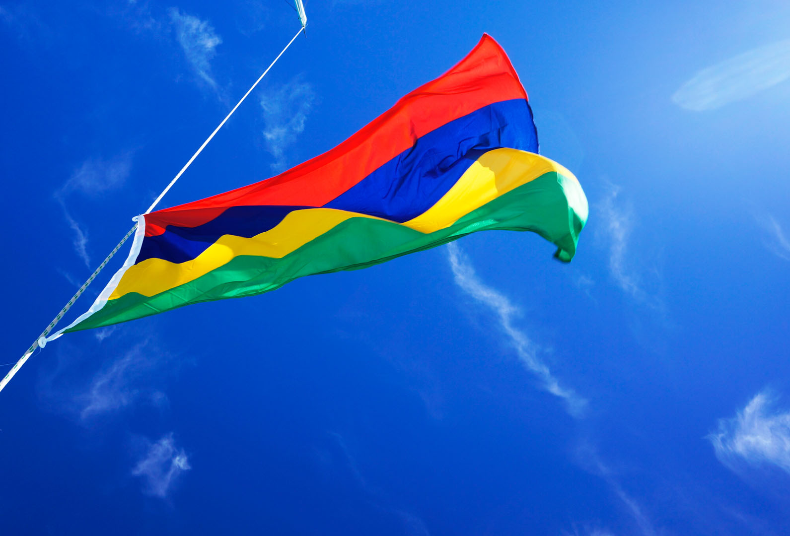 Flag of the Republic of Mauritius